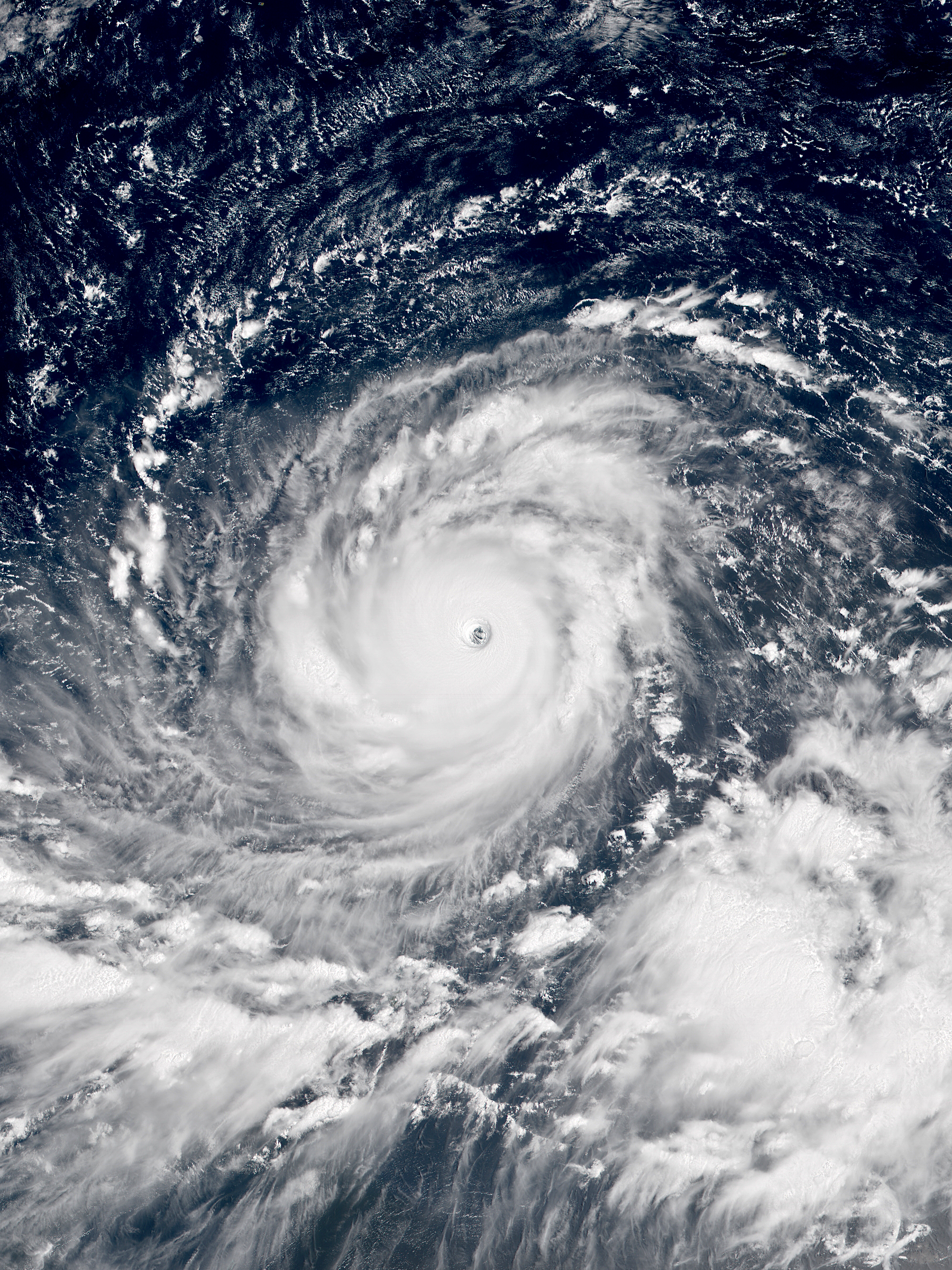 Typhoon Mangkhut over the Philippine Sea at peak intensity on September 12, 2018.